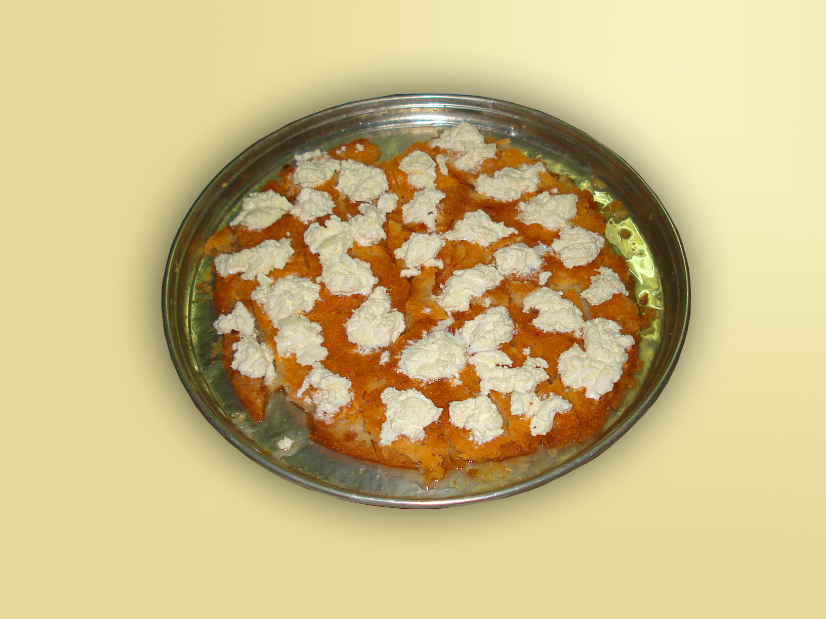 A kind of kadaif from Turkish cuisine desserts